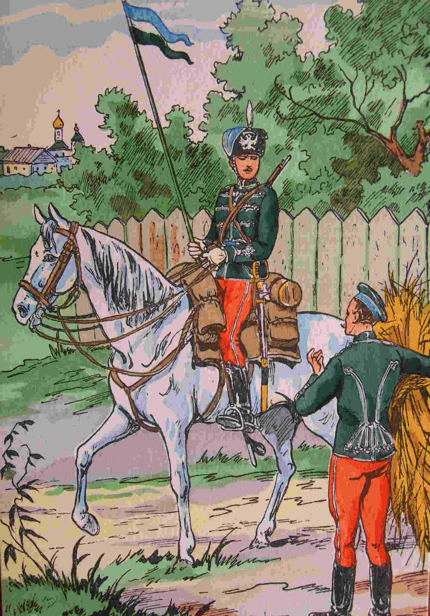 Uniform of Husar 18-th Nezhin Regiment. 1914 Postcard.